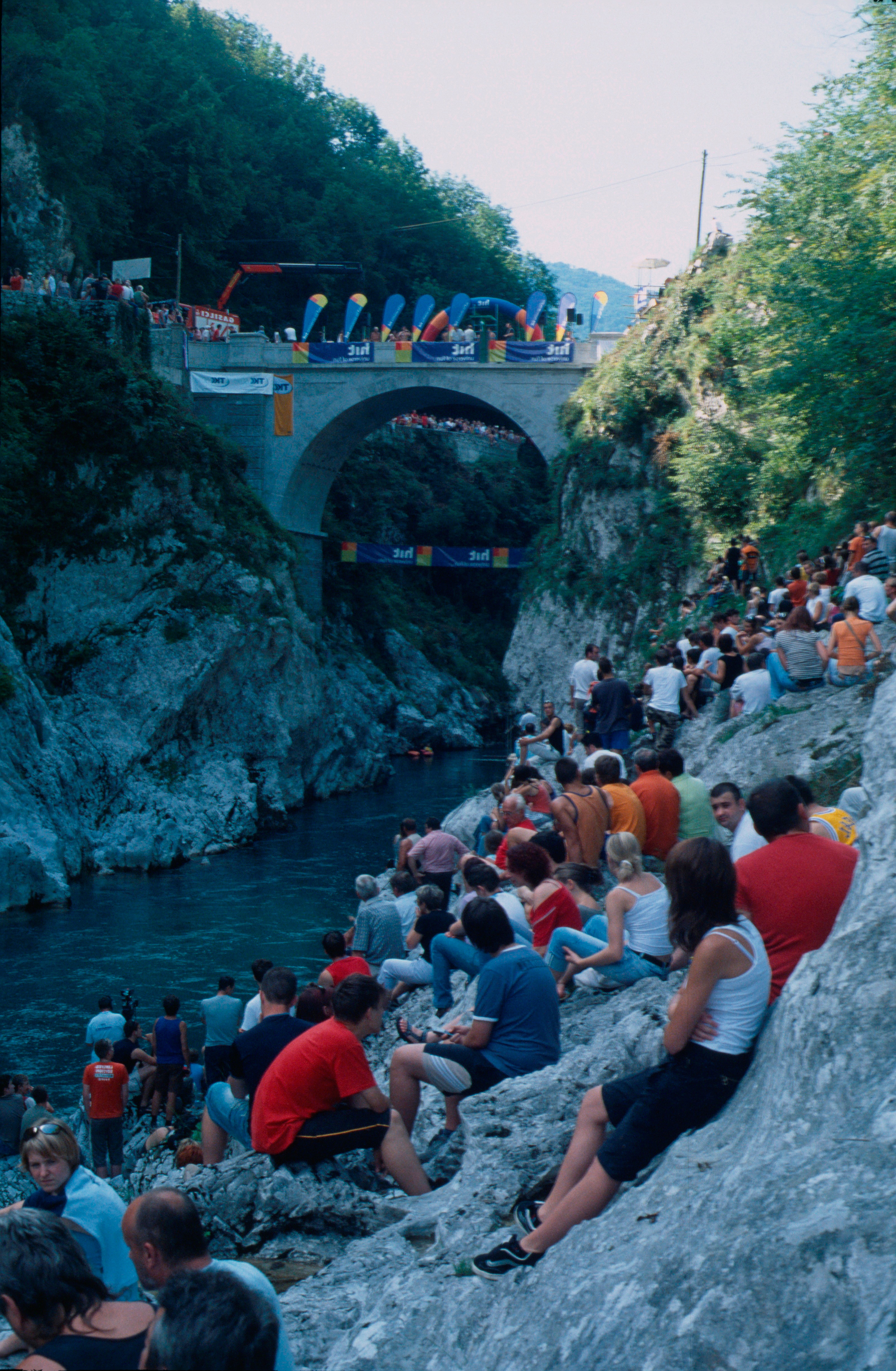 Spectators at cliff diving event (Napoleon bridge near Kobarid (Slovenia)